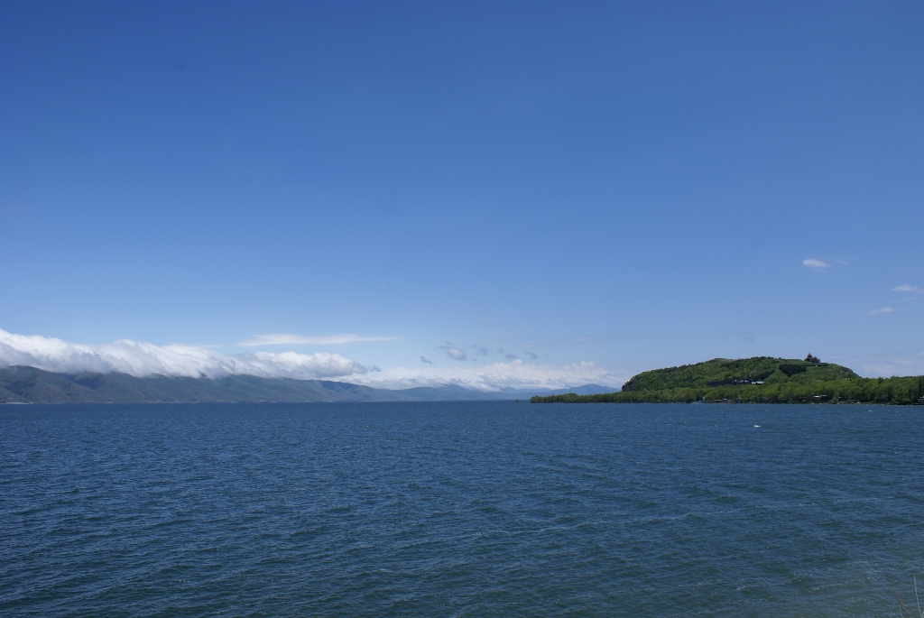 Lake Sevan with the monastry on Sevanvank peninsula